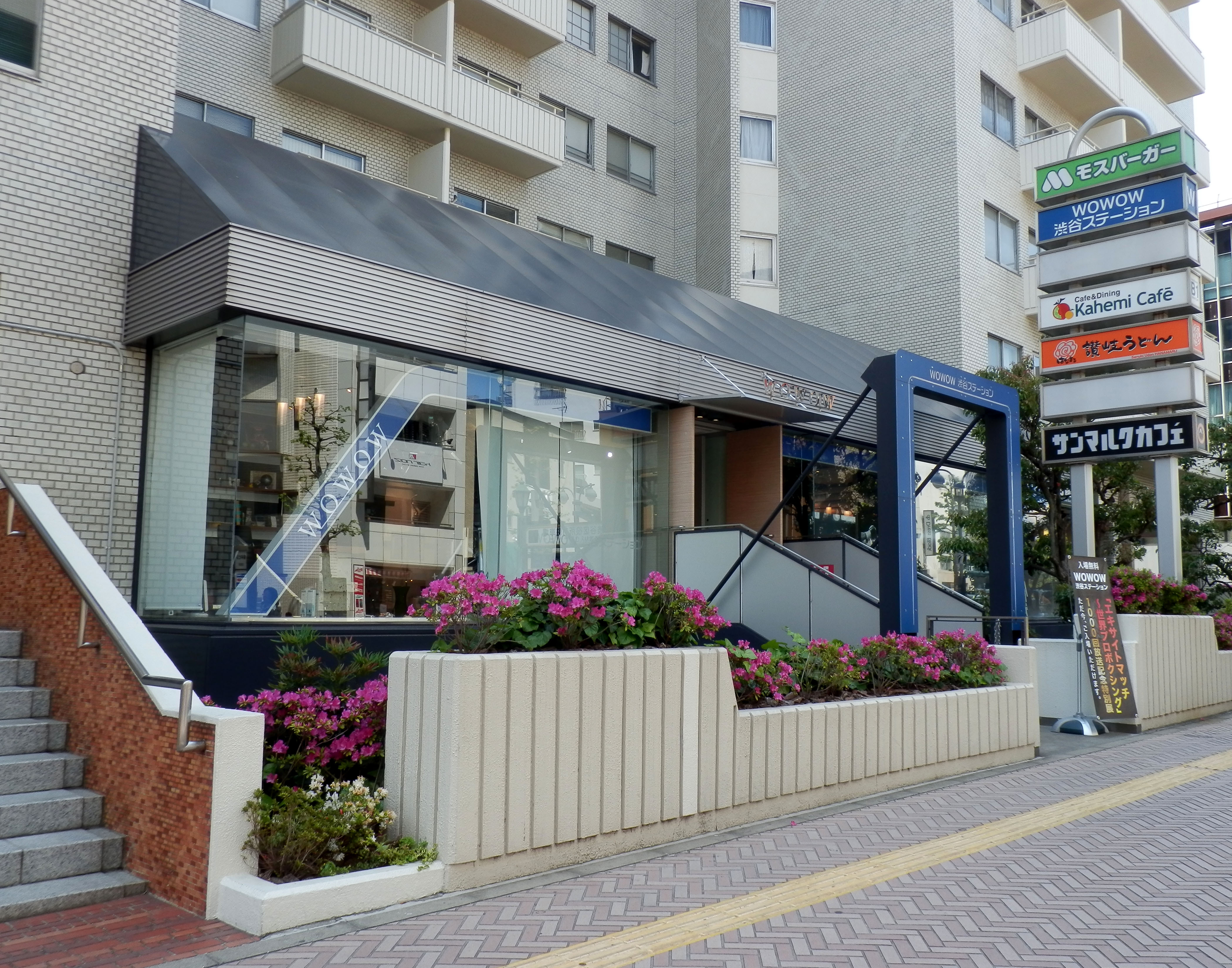 WOWOW Shibuya Station (Broadcast station in Tokyo, Japan)